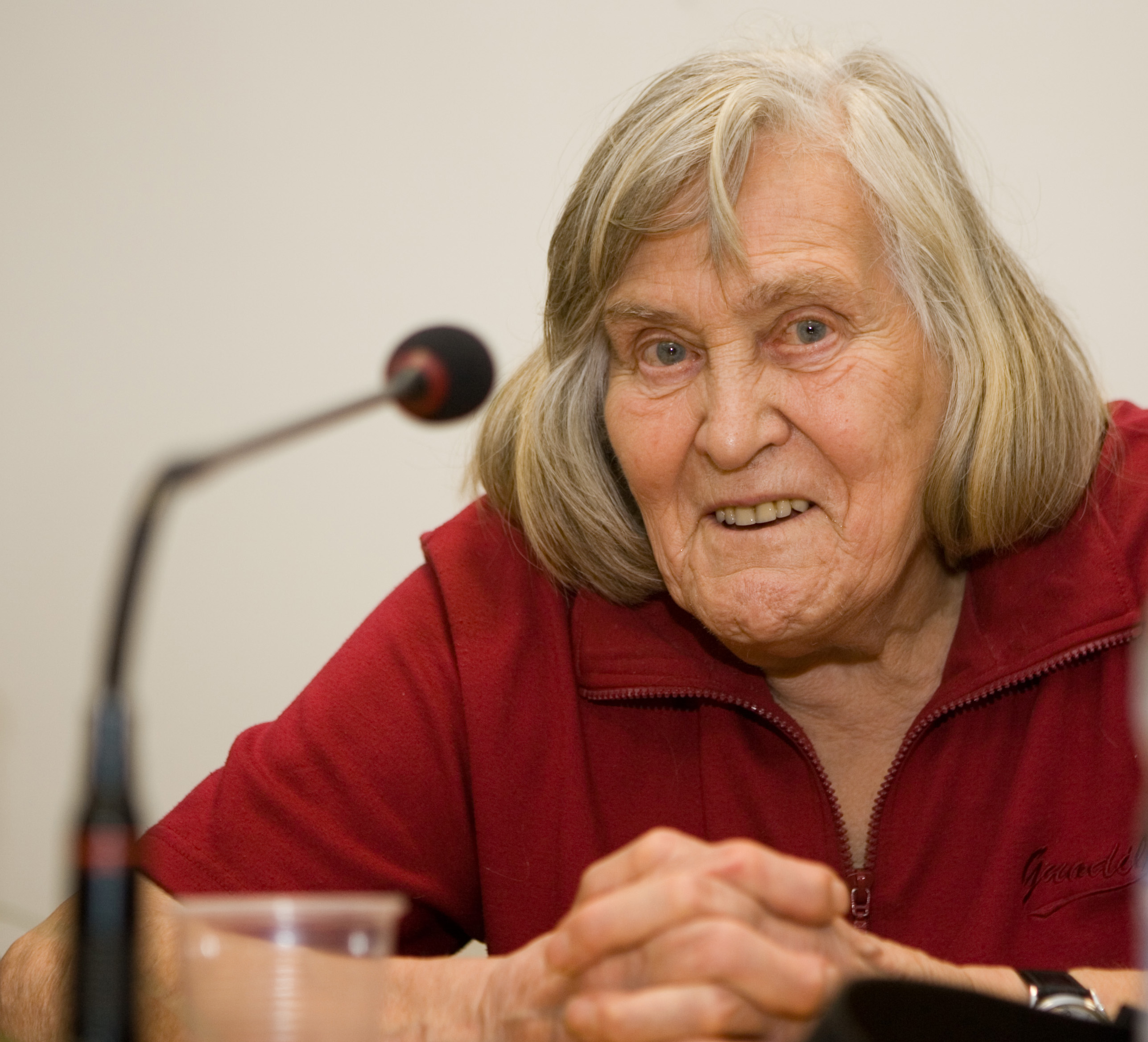 Italian astrophysicist Margherita Hack.